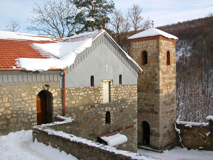 Devič Monastery reconstruction after 2004 attacks.